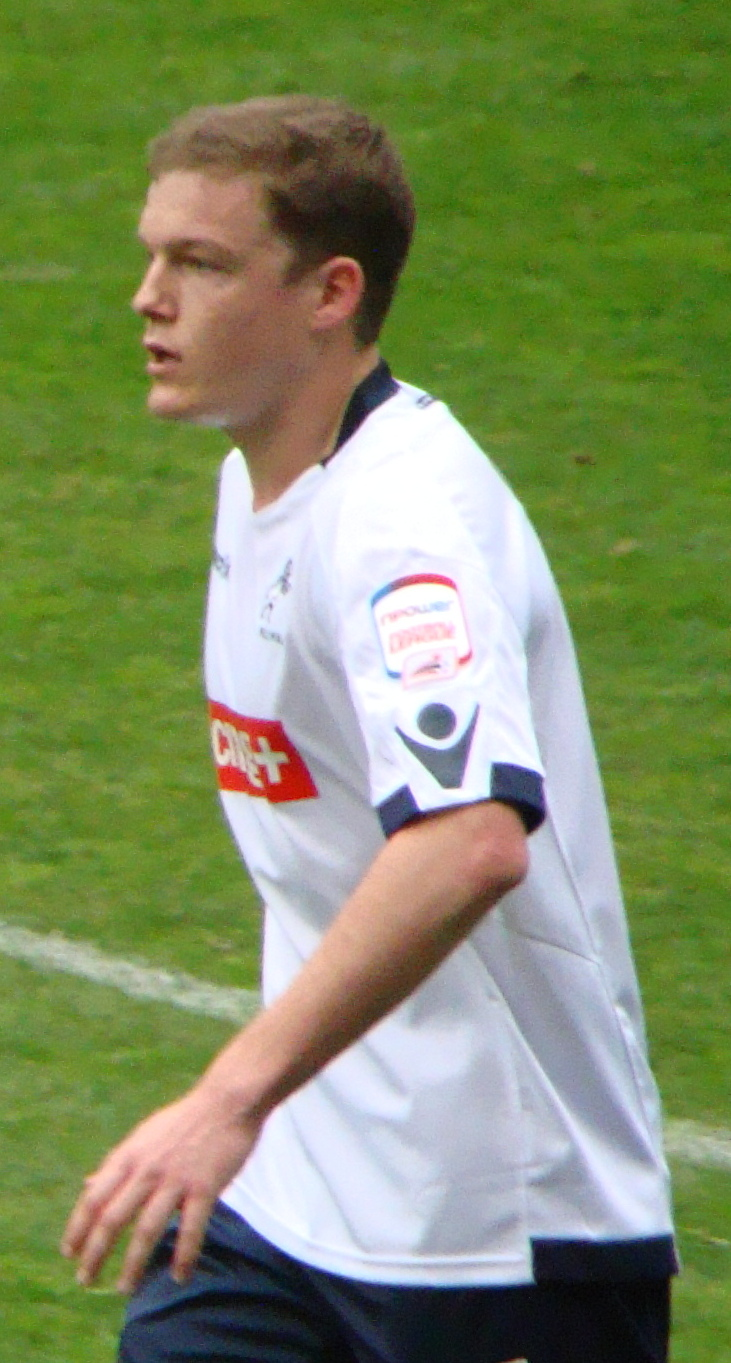 31/03/12 Cardiff v Millwall, Championship, Cardiff City Stadium, Cardiff, Wales